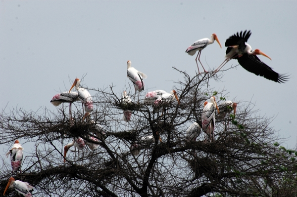 Painted Storks at Acacia tree in Keoladeo National Park